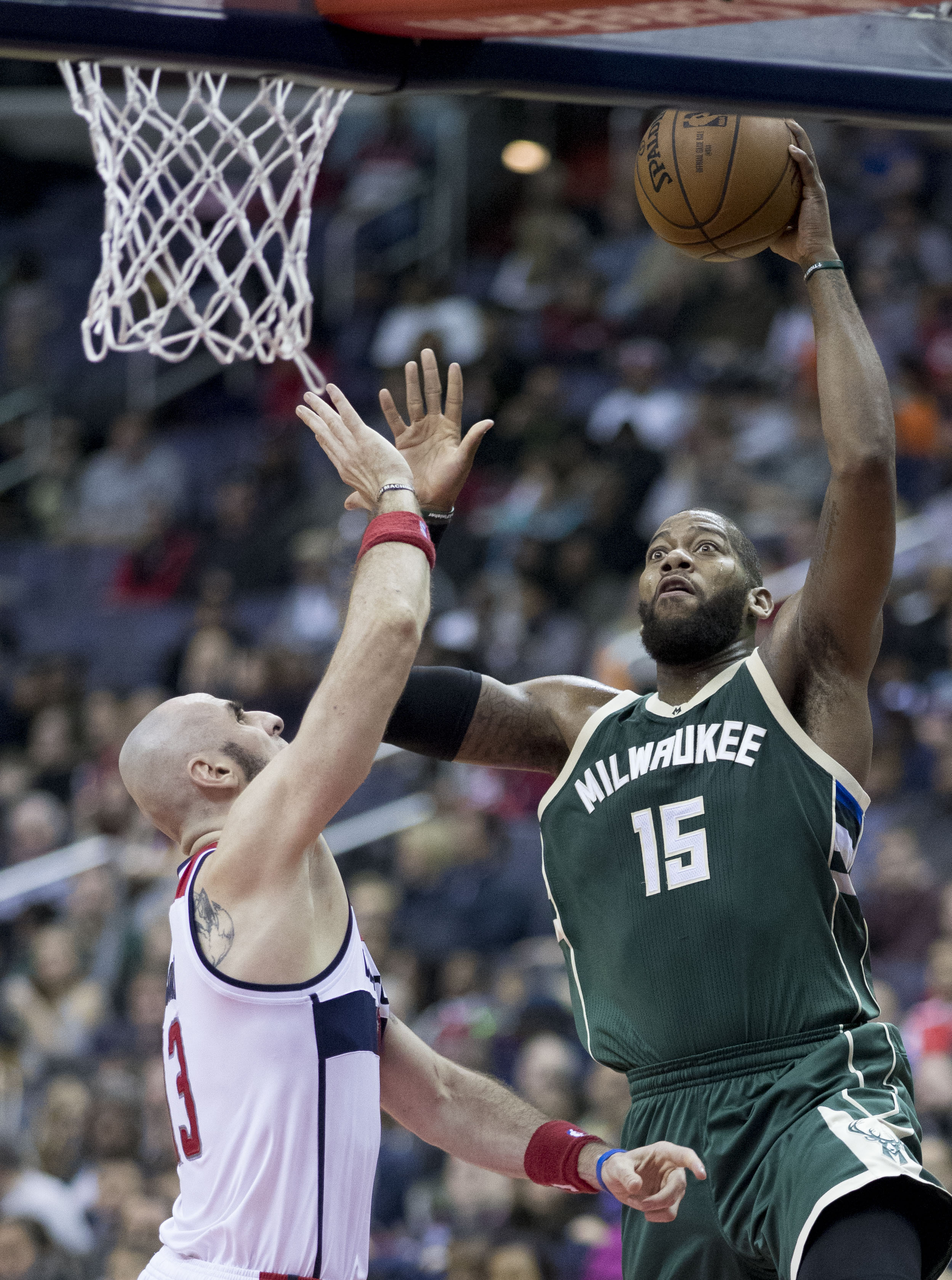 Bucks at Wizards 12/10/16